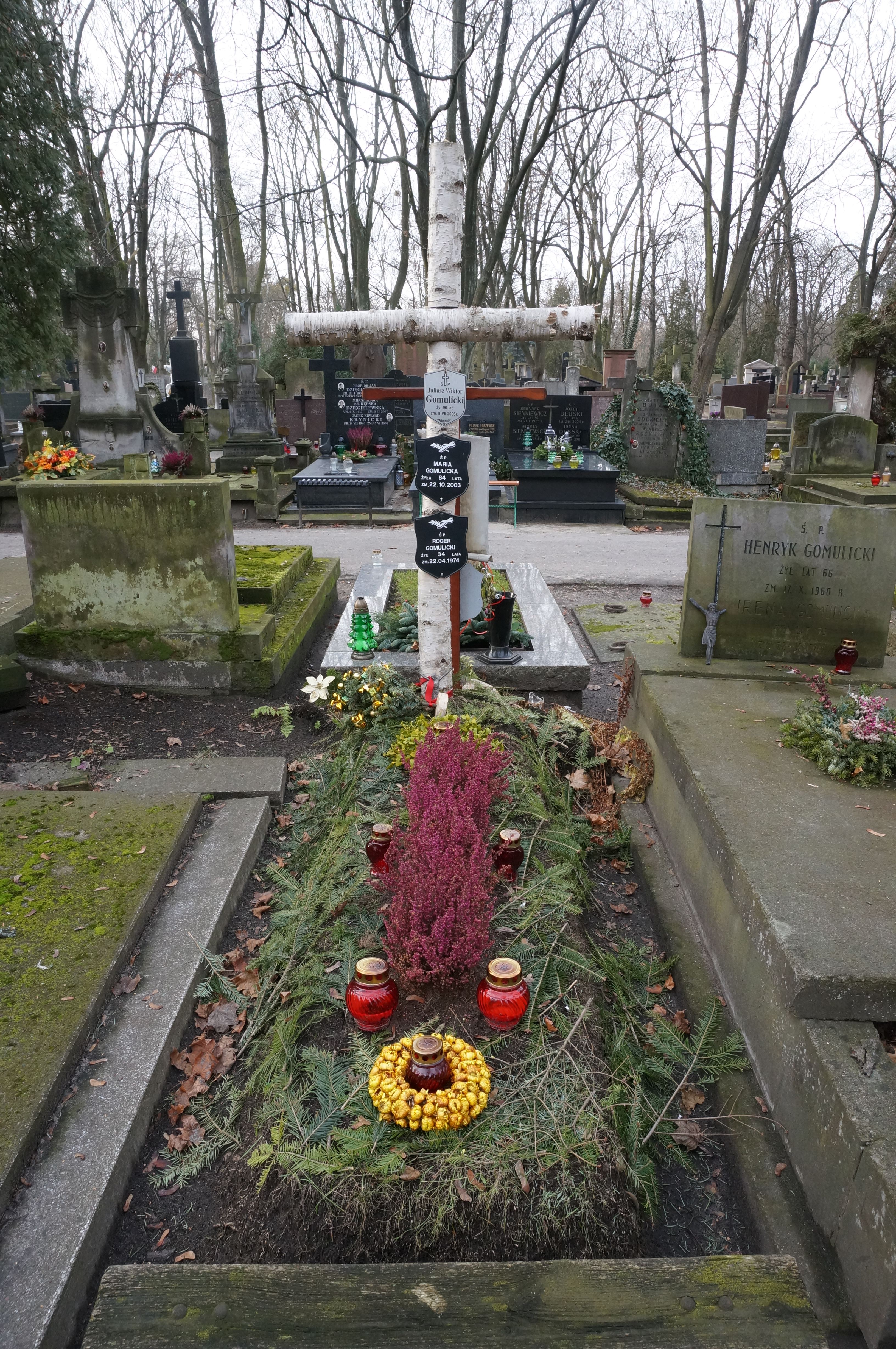 The grave of Juliusz Wiktor Gomulicki at the Powązki Cemetery (section 202, row 5, grave 7)